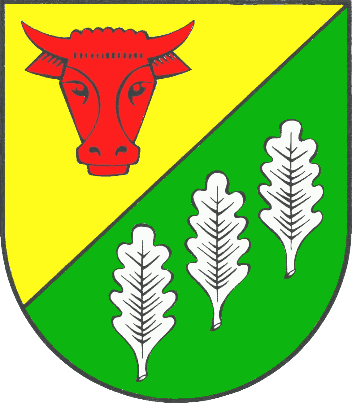 Coat of arms of the municipality Kropp in Schleswig-Holstein, Germany.